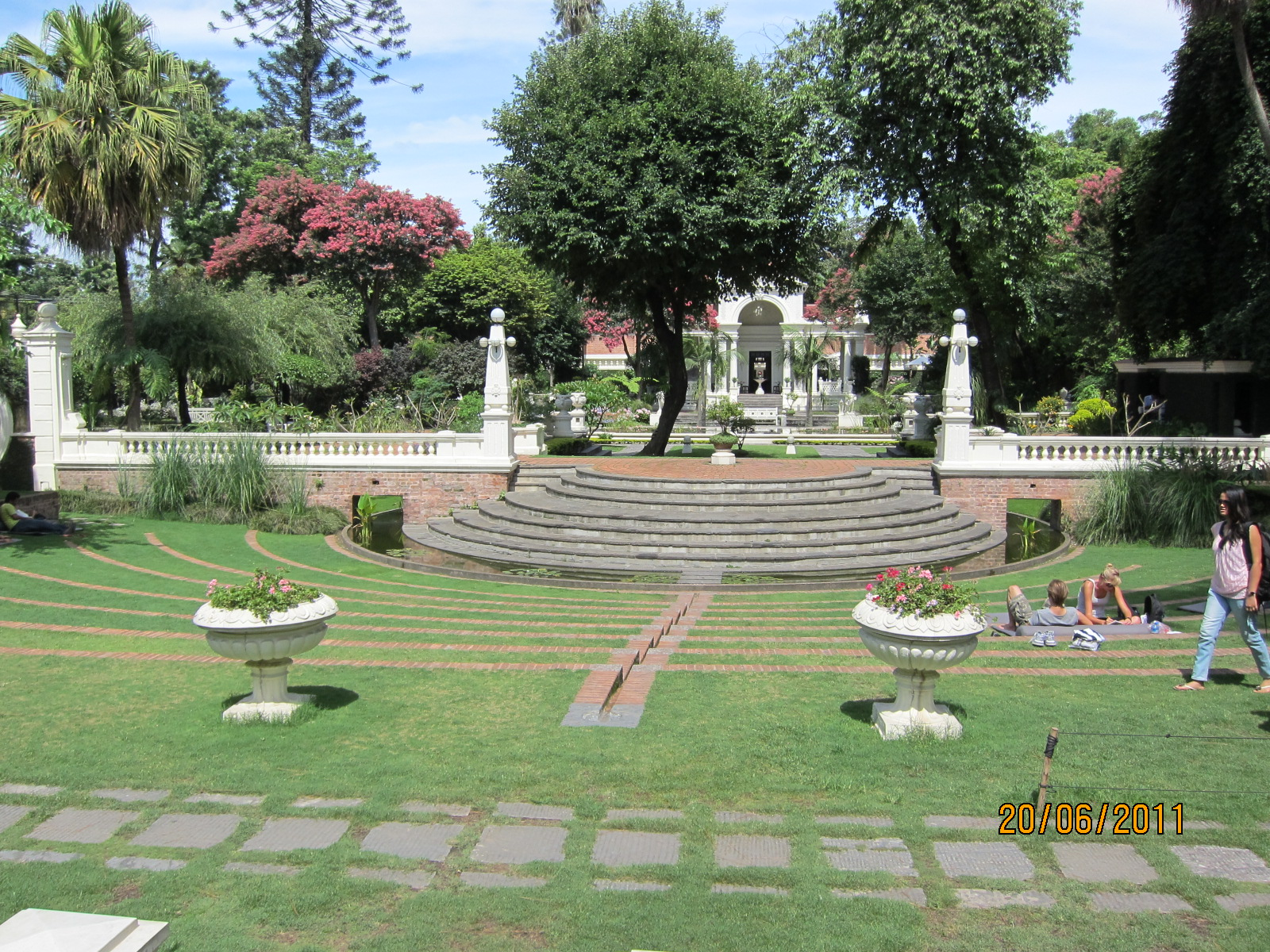 Garden of Dream keshar Mahal Nepal